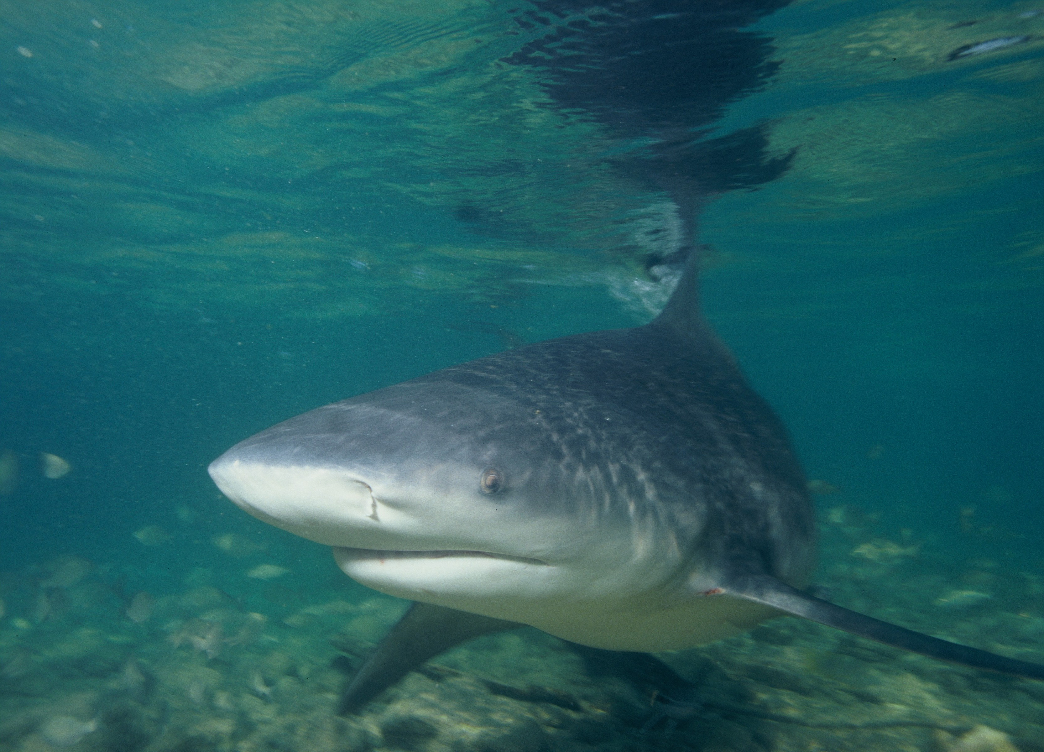 This Bull shark is (was) a frequent visitor from Walkers Cay Bahama's